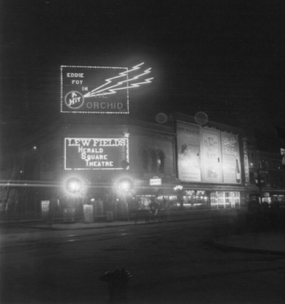 The Herald Square Theatre, on the northwest corner of Broadway and 35th Street in Manhattan, at night. Electrical sign announces Eddie Foy in The Orchid, which played at that theatre April 8—August 31, 1907. The New York Times (April 9, 1907). "The Orchid Pleases" The Sun (August 31, 1907). Advertisement for Fields' Herald Square Theatre, p. 12, col. 5 (last night at that theatre) (This image has been cropped from a stereograph, and converted from tiff to jpg format, by the uploader.)